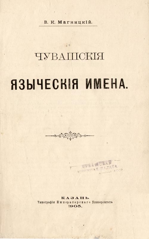 Book cover